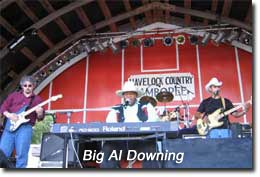 Description Picture of Al Downing Source Taken by Me Date August, 2004 Author Reznorsboy Permission Self